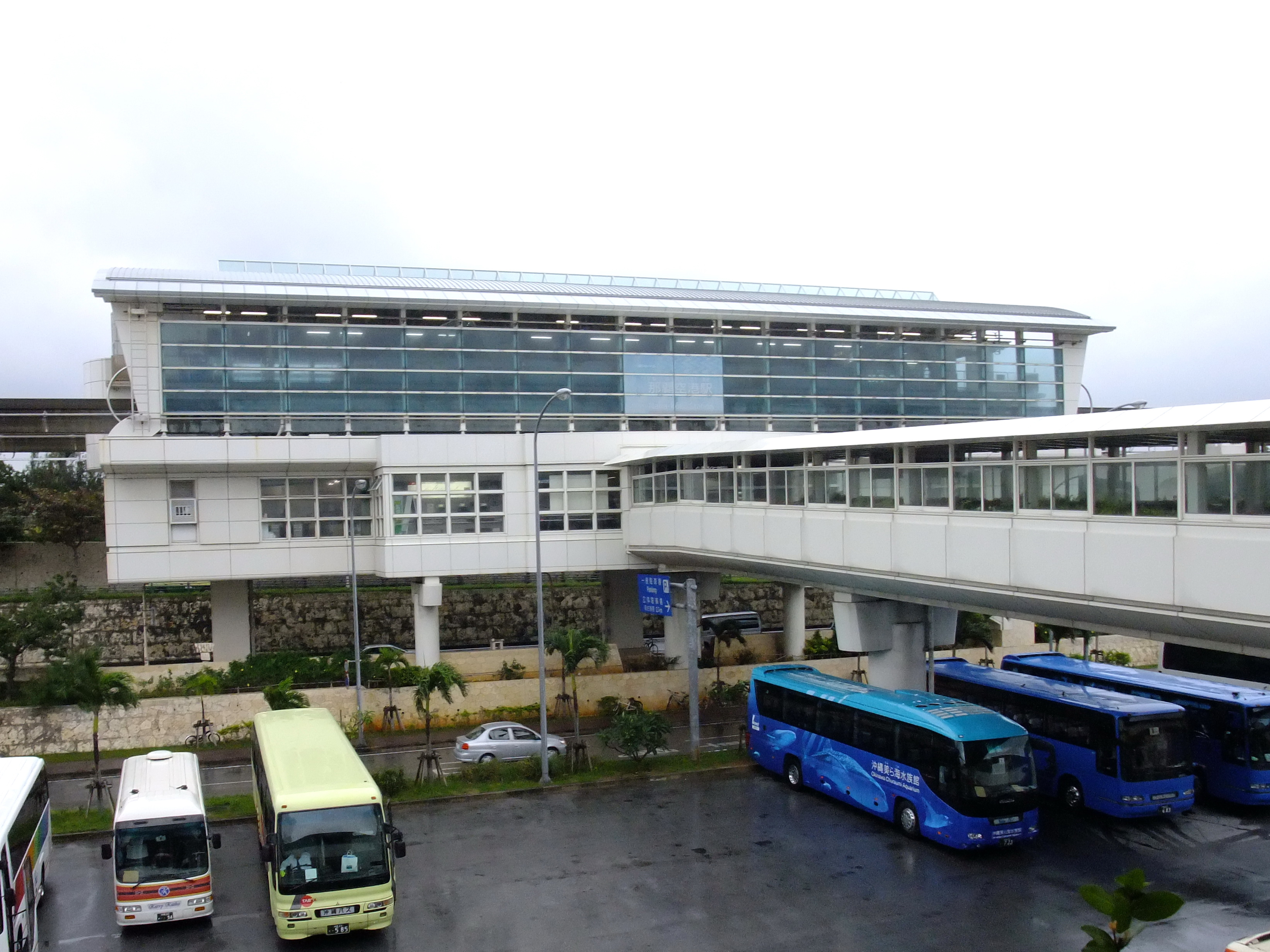 Okinawa City Monorail Line (Yui Rail), Naha-kūkō Station (Okinawa)